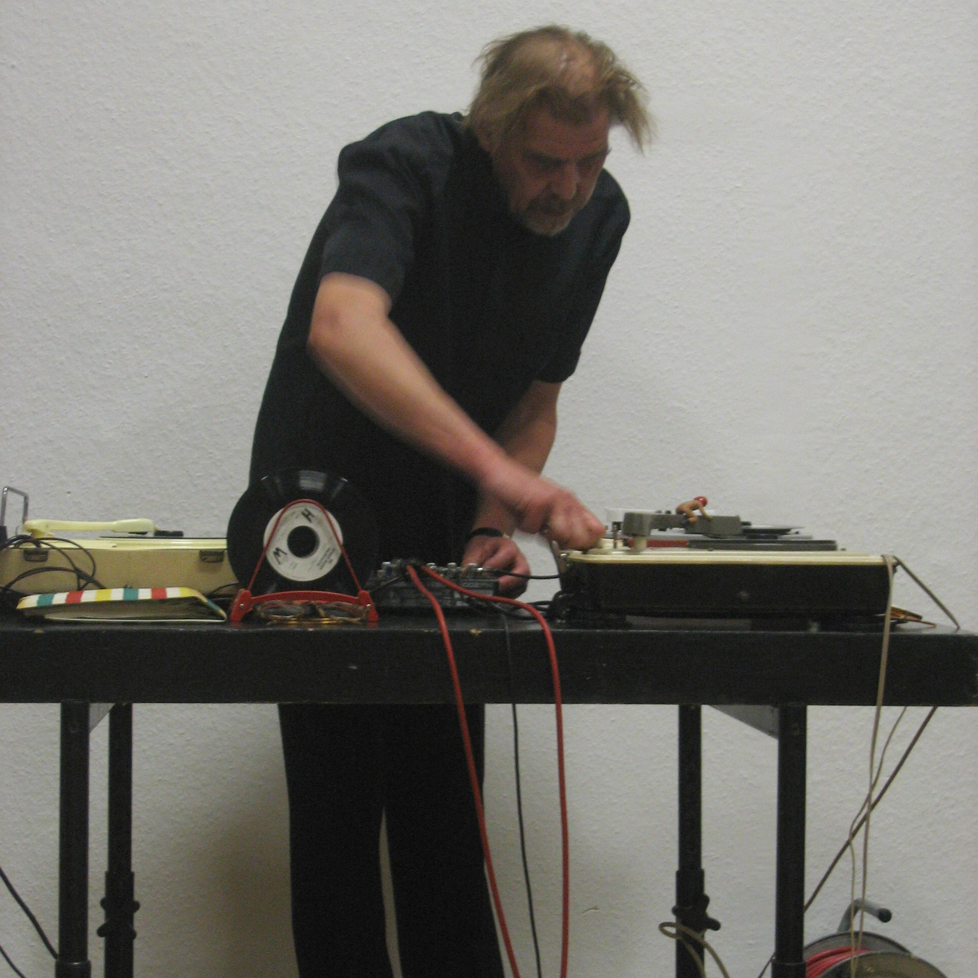 Claus van Bebber, Sound-Artist, Vinylconzert on 04. Aug. 2007 at Kleve, Germany (25 years of Heinrich Mucken)